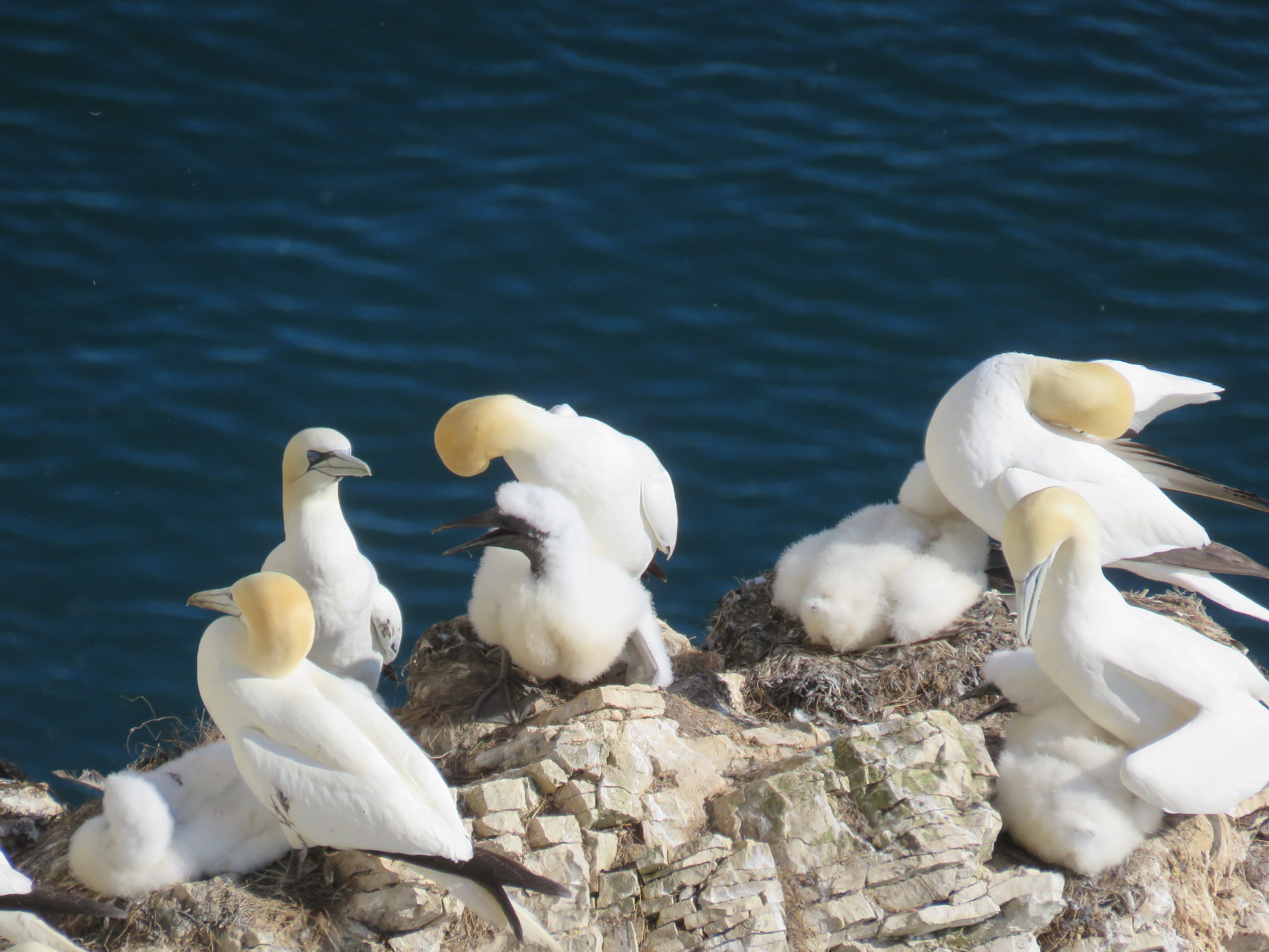 gannets, RSPB Bempton